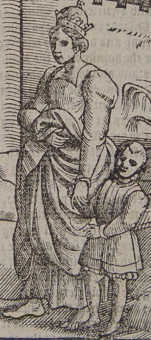 In the winter of 1077,the queen Bertha of Savoy ,the later Holy Roman Empress,joined the penance by which her excommunicated husband Henry IV begged for forgiveness from Pope Gregory VII before the gate of the castle Canossa. As her husband did, the queen removed her shoes and stood barefoot in the snow despite the great humiliation, showing her touching support to her husband. While the Pope made them await outside for 3 days before he accepted the surrender of Henry IV.